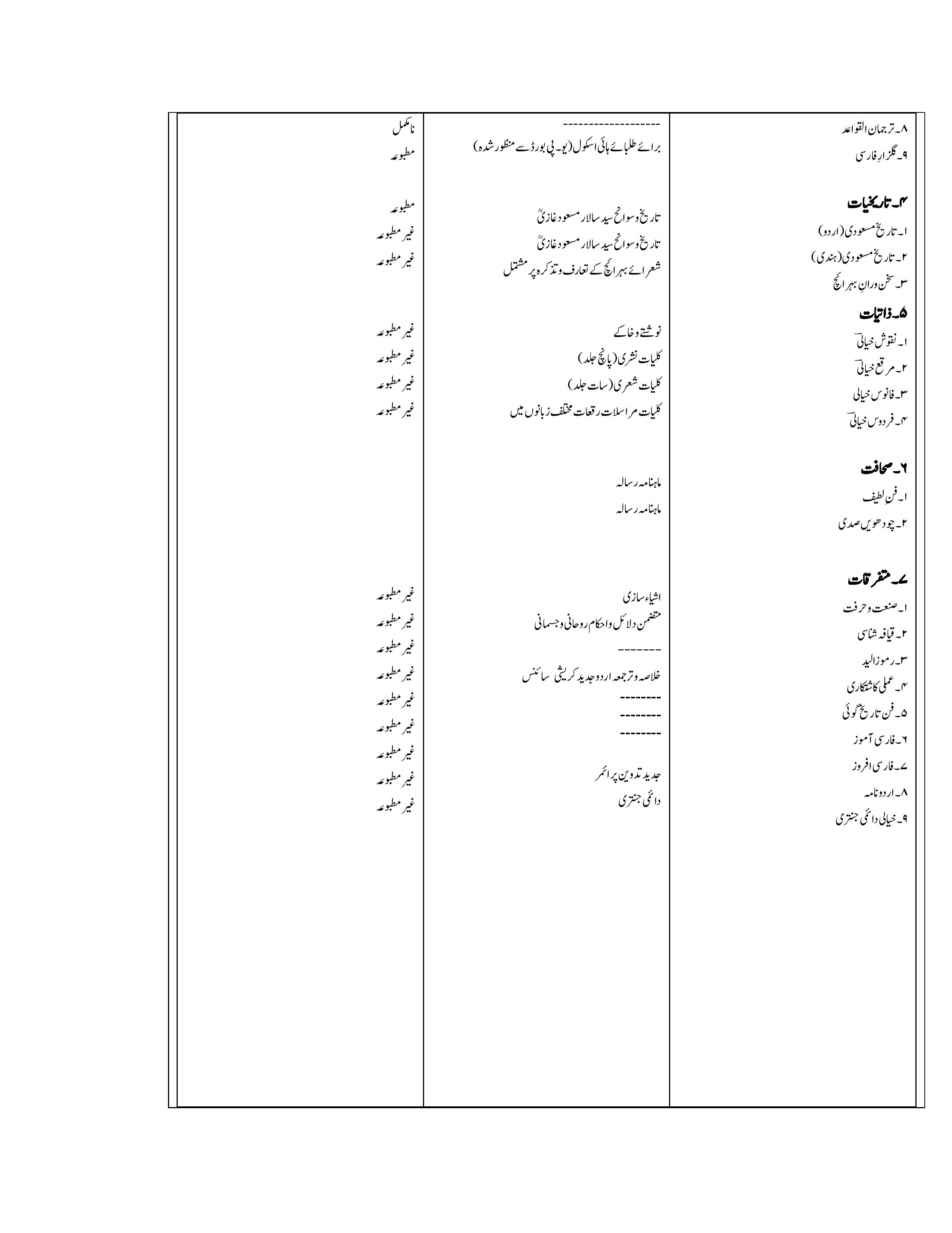 Book List 2 of Dr.NaimUllah Khayali